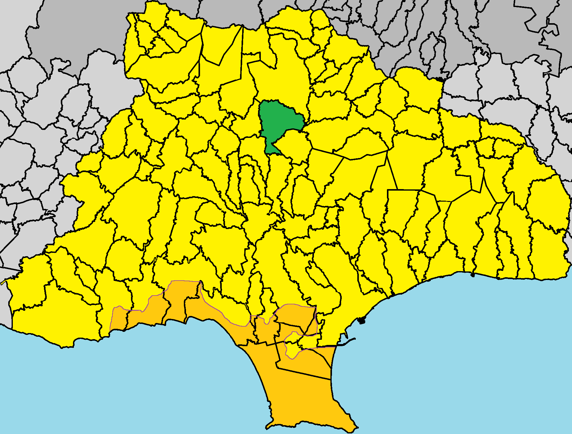 Agios Mamas in Limassol District.